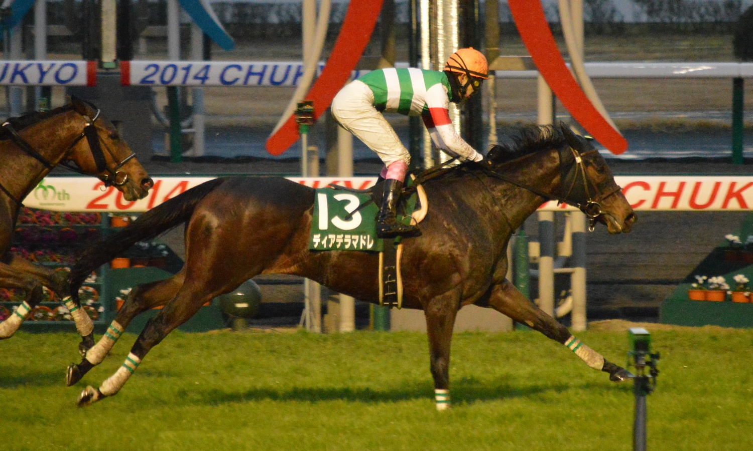 Japanese race horse Dia de la Madre at Chukyo racecourse.